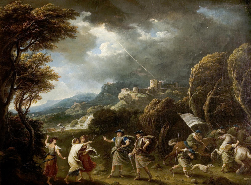 Painting by Francesco Zuccarelli. c. 1760. Oil on panel. 33 x 44.5 cm. Private Collection. (F. Spadotto, cat. no. 304)